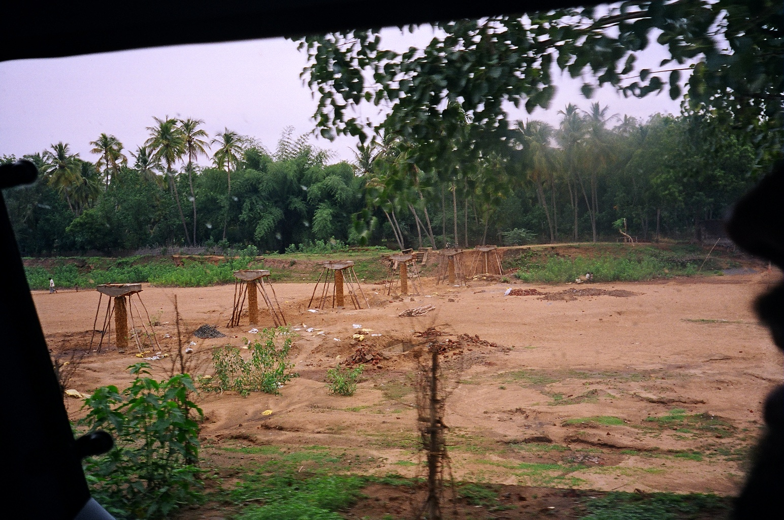 This is a picture of a riverbed of a Distributary of the Kaveri river on the Kaveri delta, near Nannilam, Tamil Nadu, taken by User:BostonMA in August 2003